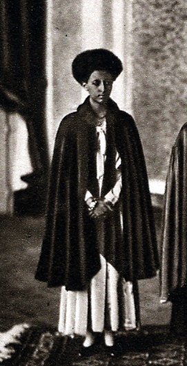 Image of Princess Tsehai of Ethiopia - Cropped